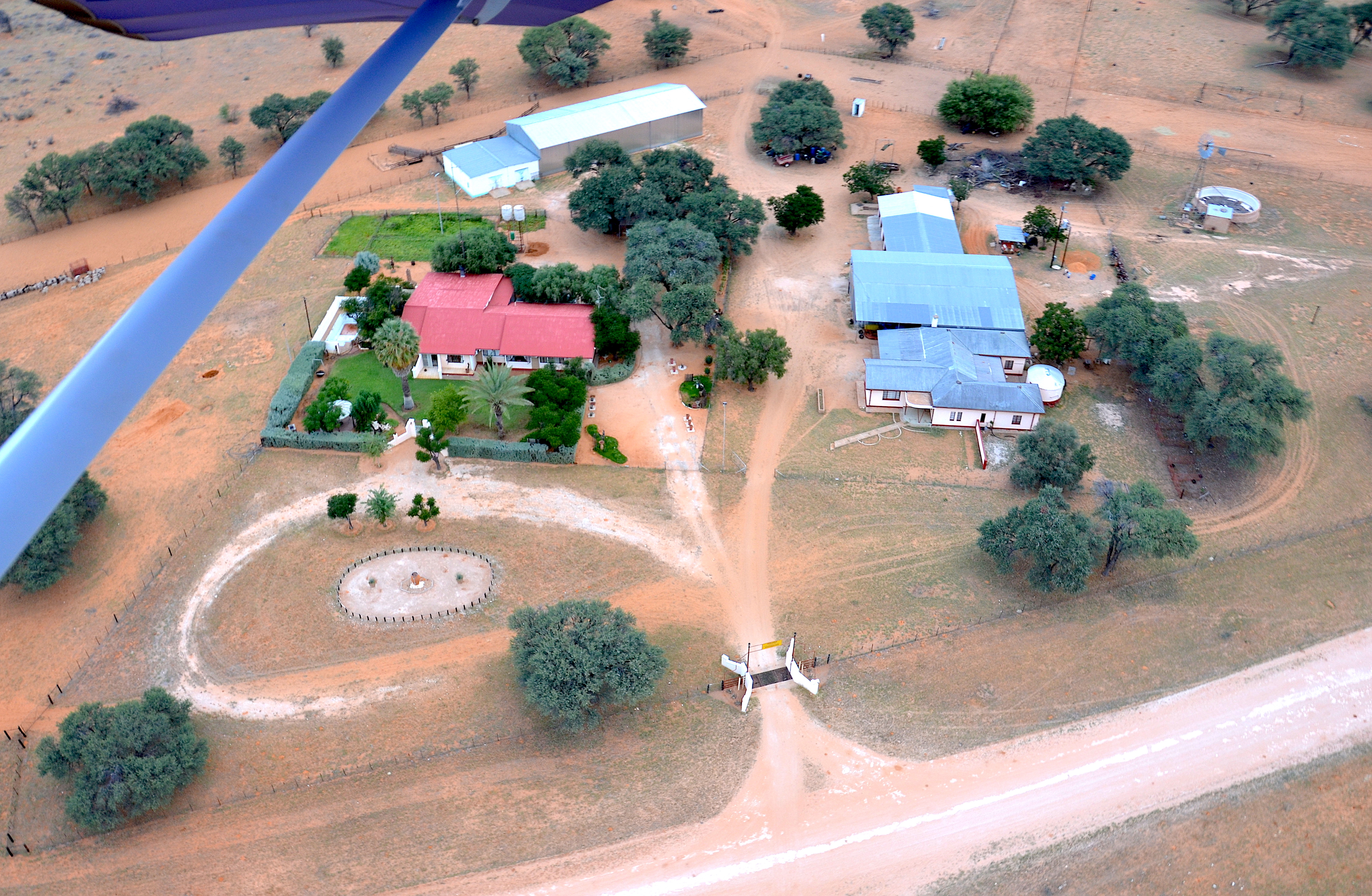 Farm within Kalahari Desert in Namibia (2017)